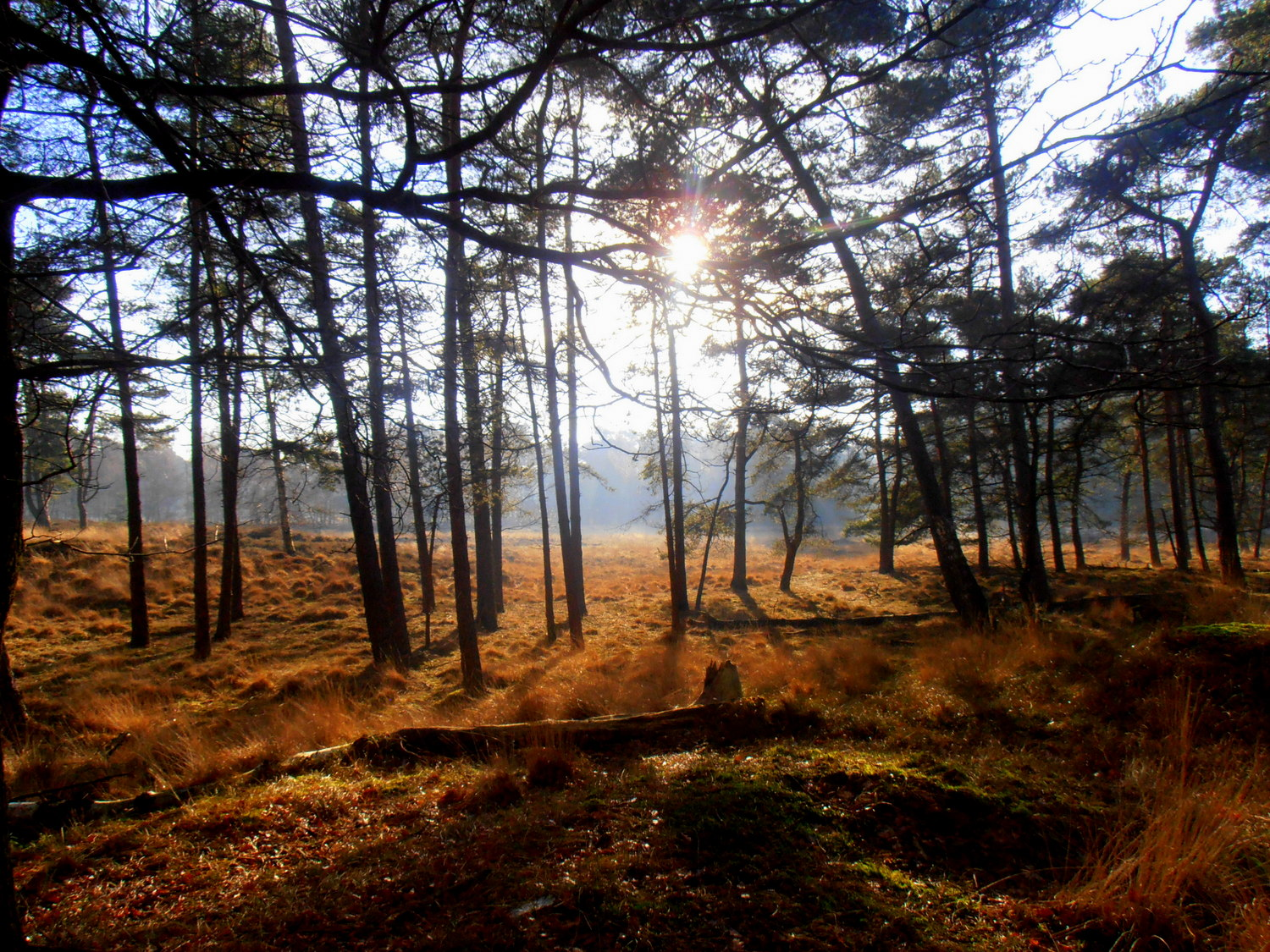 This is a photo or sound file made in Utrechtse Heuvelrug National Park in the Netherlands, with the main subject of the file in the category: landscapes